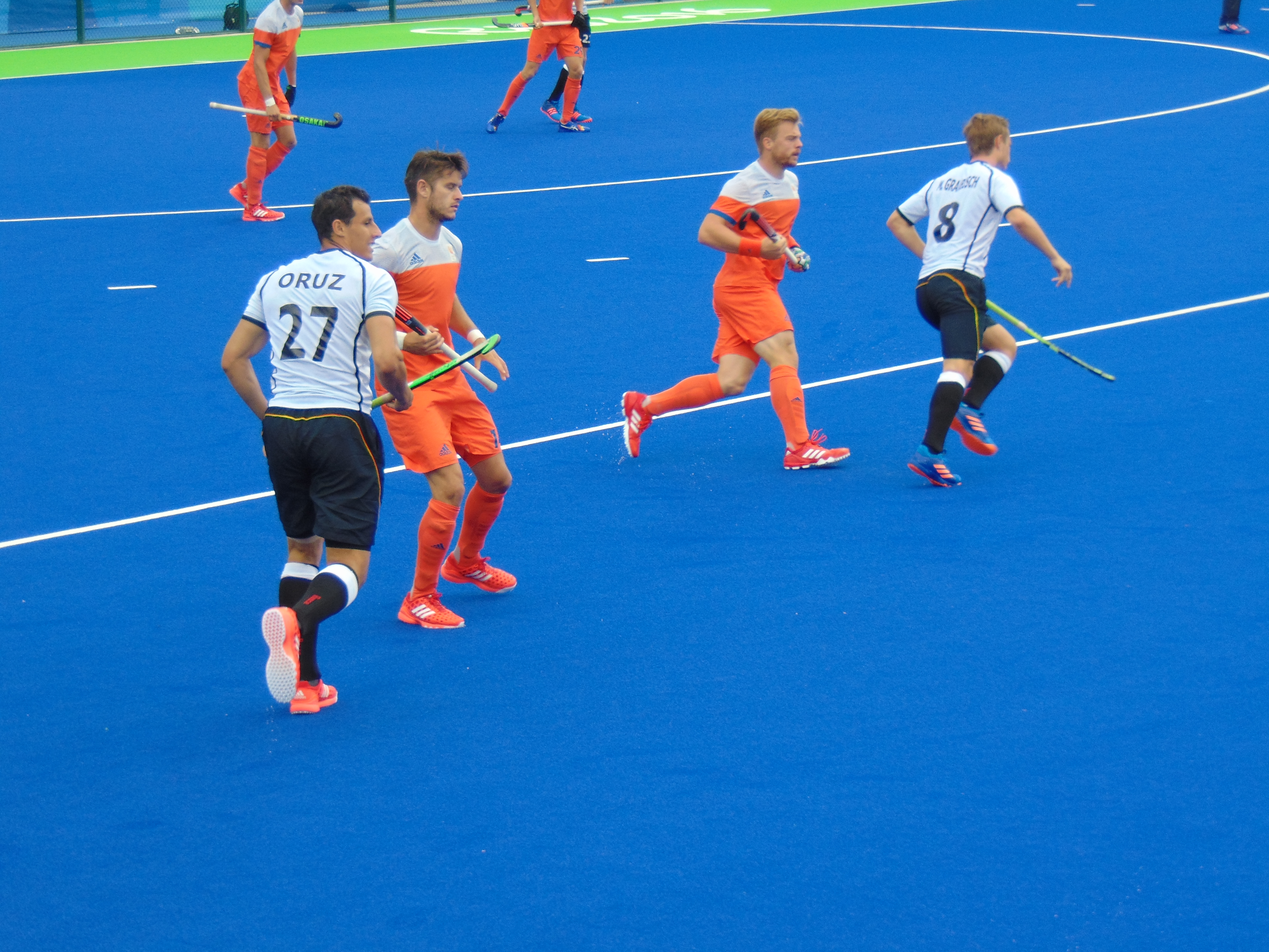 Rio 2016 - Men's and Women's Field hockey (HO025)